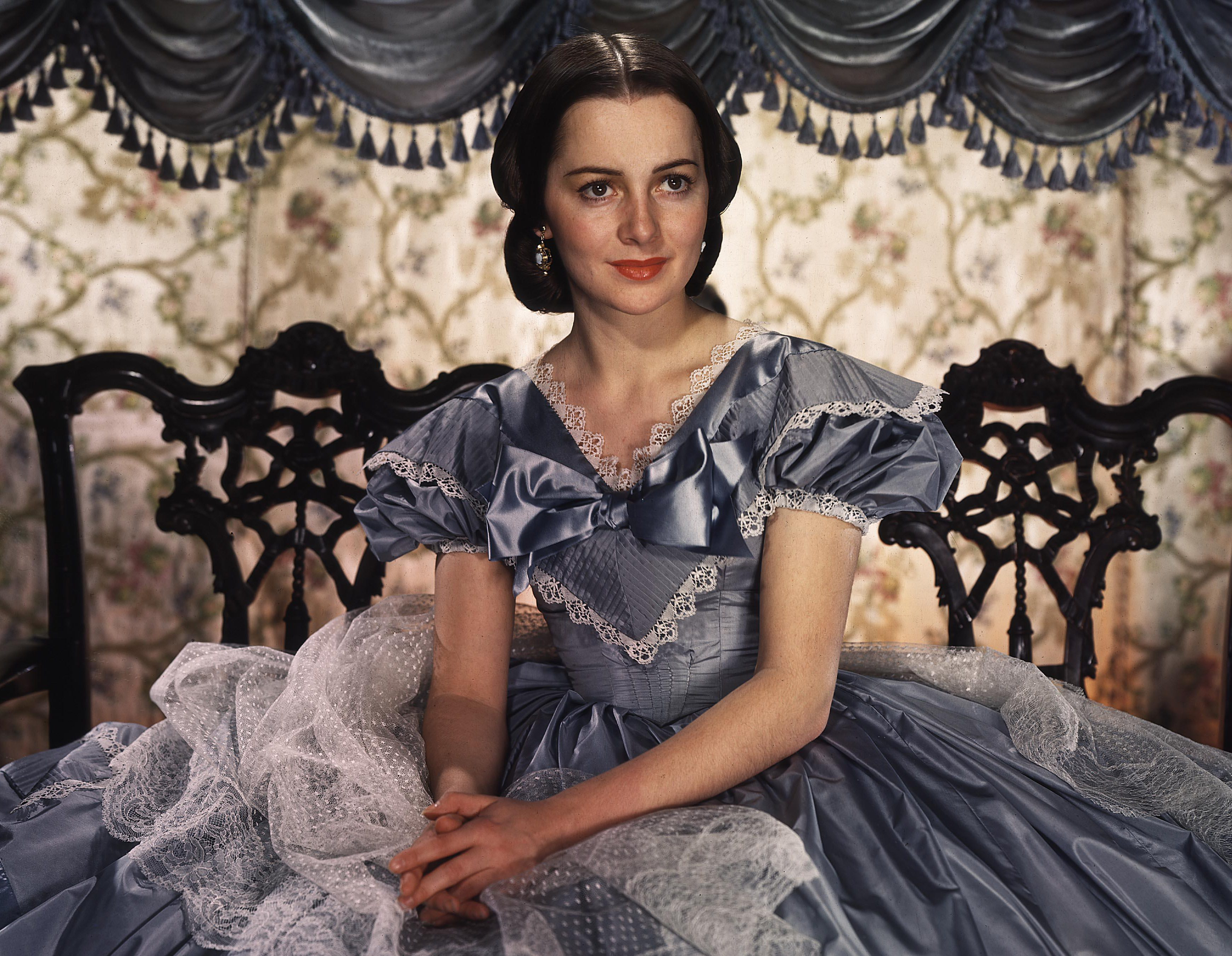 Studio publicity portrait for film Gone With the Wind (1939).